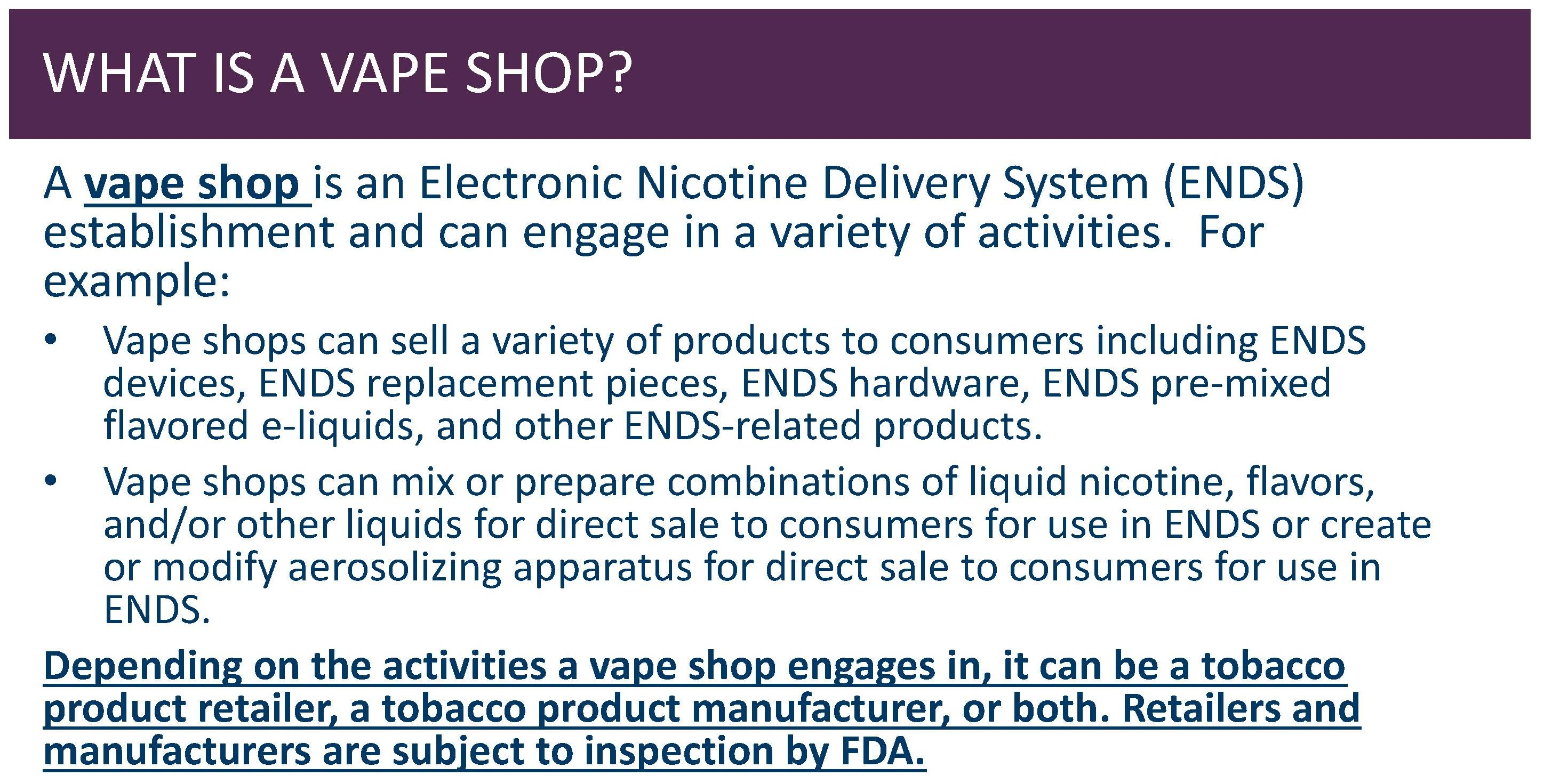 FDA CTP PowerPoint Presentation Vape Shop Webinar